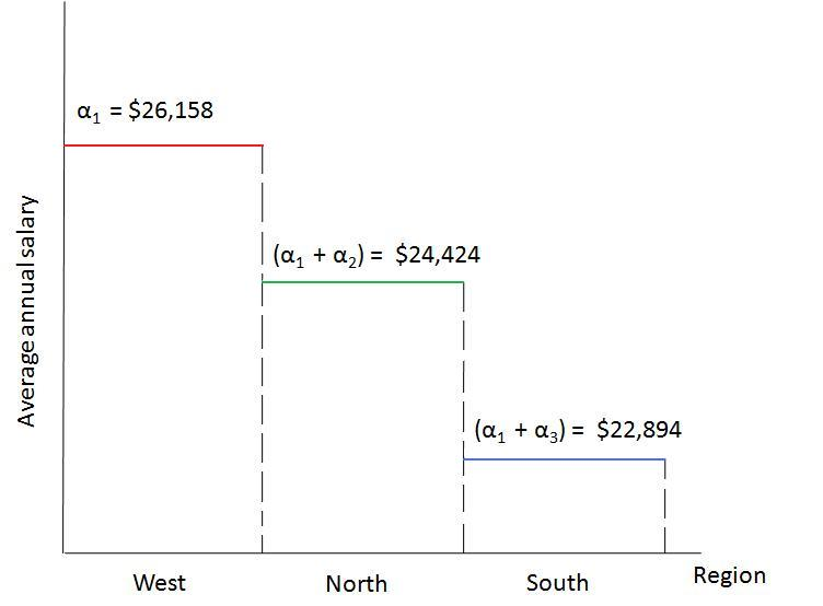 This graph has been used to depict the results of a regression output. The regression involved an anova model. for more details, see article on Dummy variable regression analysis